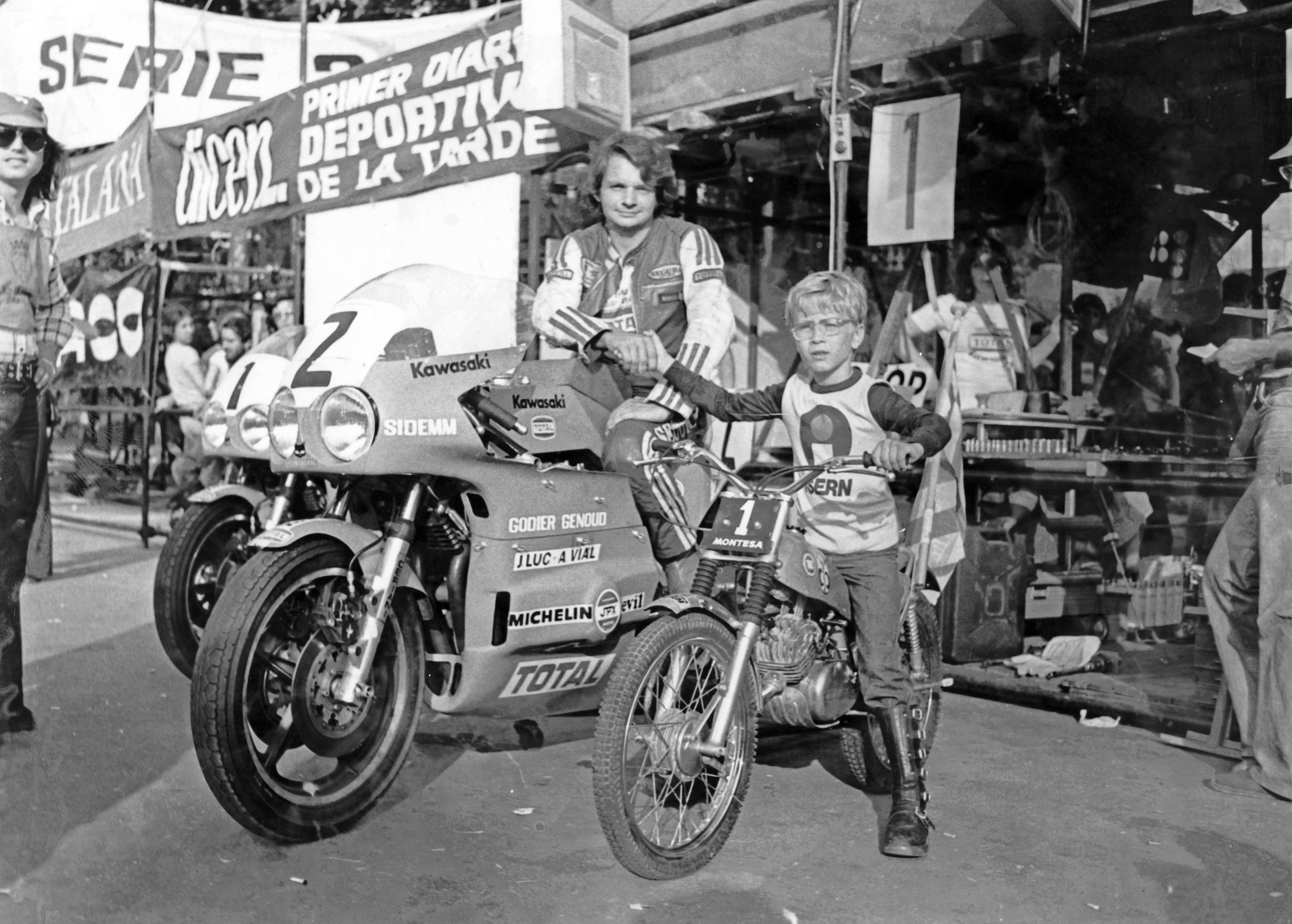 Alain Vial (teammate of Jacques Luc) on his Kawasaki 1000 before starting the 1975 24 Hores de Montjuïc. He is with a boy named Cañas of Santa Agnès de Malanyanes